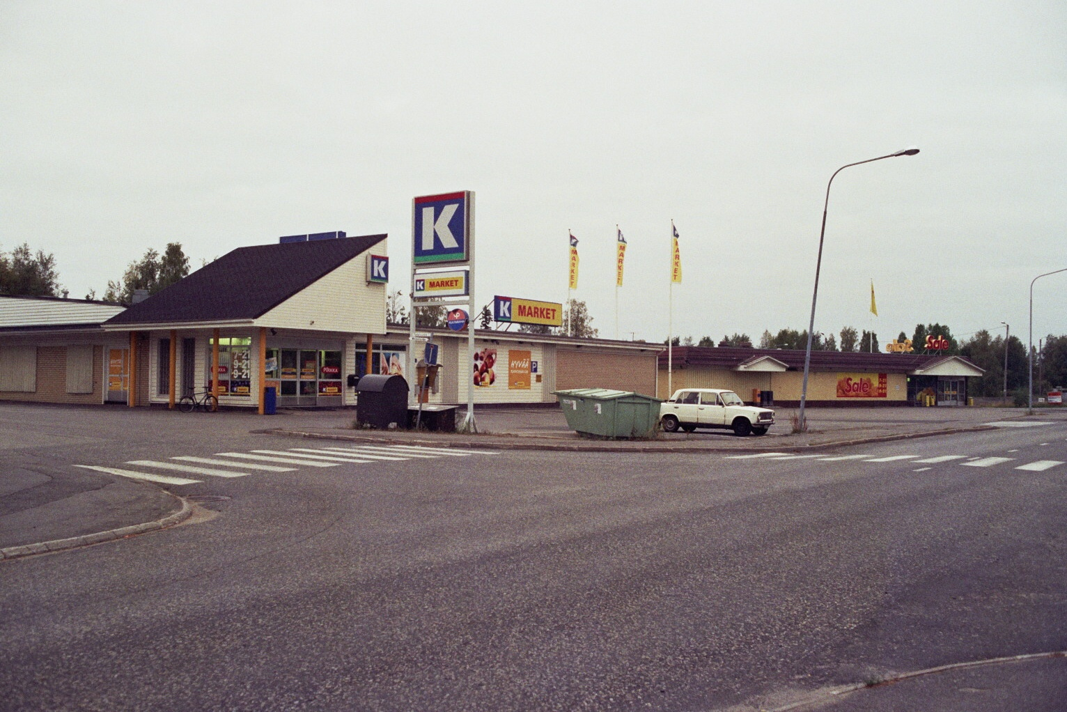 Two grocery stores, K-market and Sale, in the Kiviranta district of Tornio, Finland.